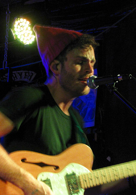 Daniel Shearin of River Whyless on stage at The Saint in Asbury Park, NJ 06192017. Photo by LHCollins.